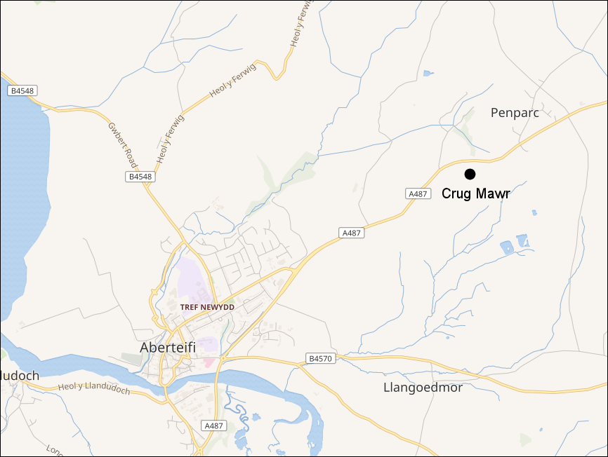 OpenStreet map showing location of the Battle of Crug Mawr.